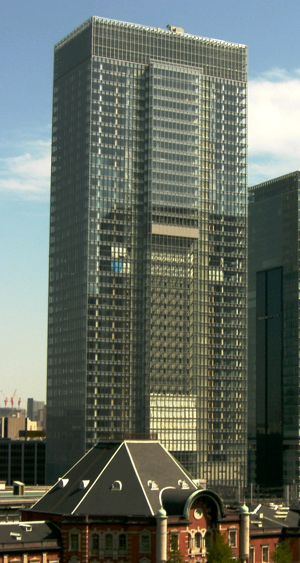 “Gran_Tokyo_SouthTower”.Building Japan